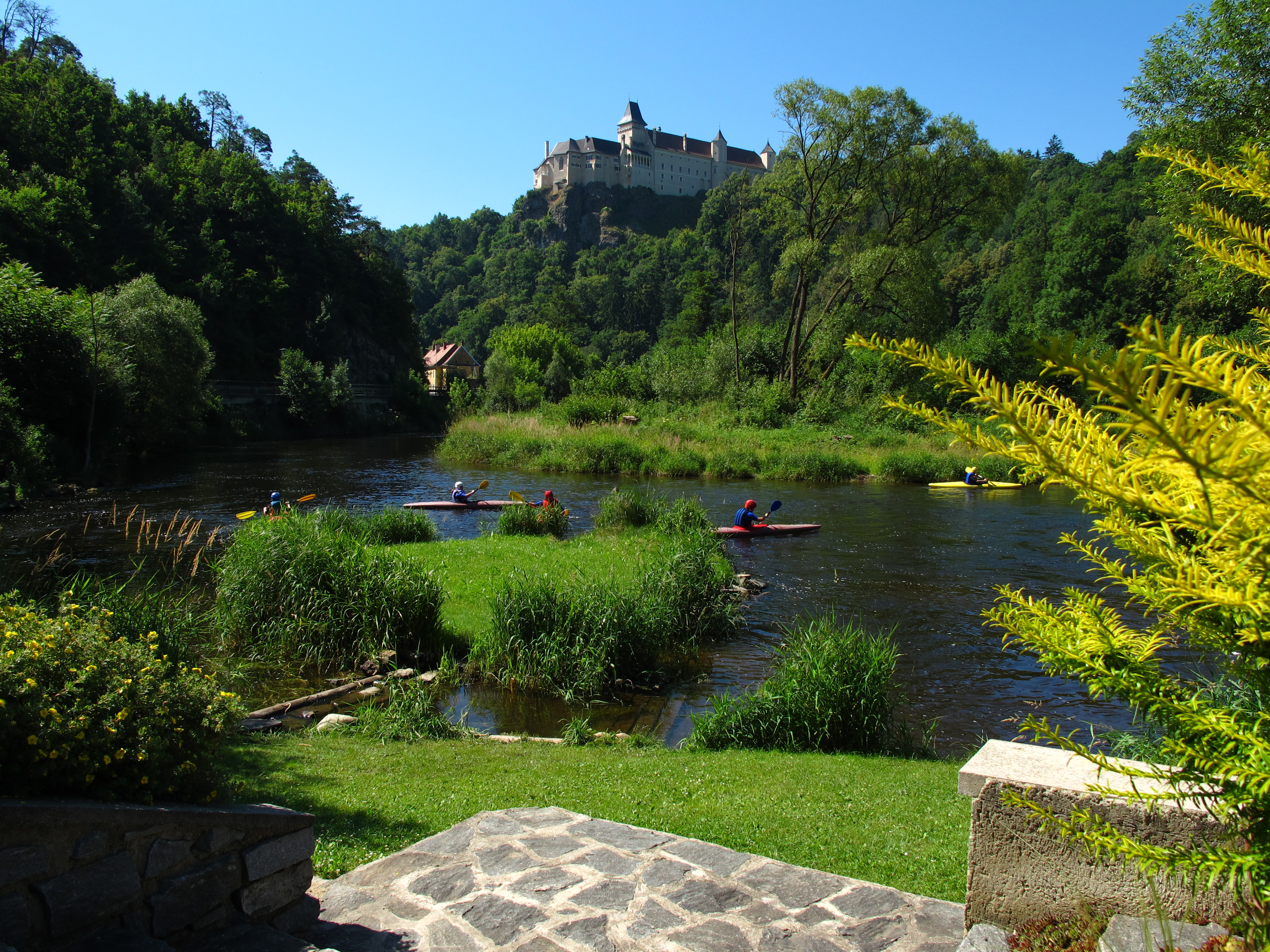 Rosenburg Castle owned by the family Hoyos above the Lower Austrian Kamp Valley into the comunity of Rosenburg-Mold / Austria / EU. In the foreground is a canoe school on the banks of the river Kamp. View towards the south.